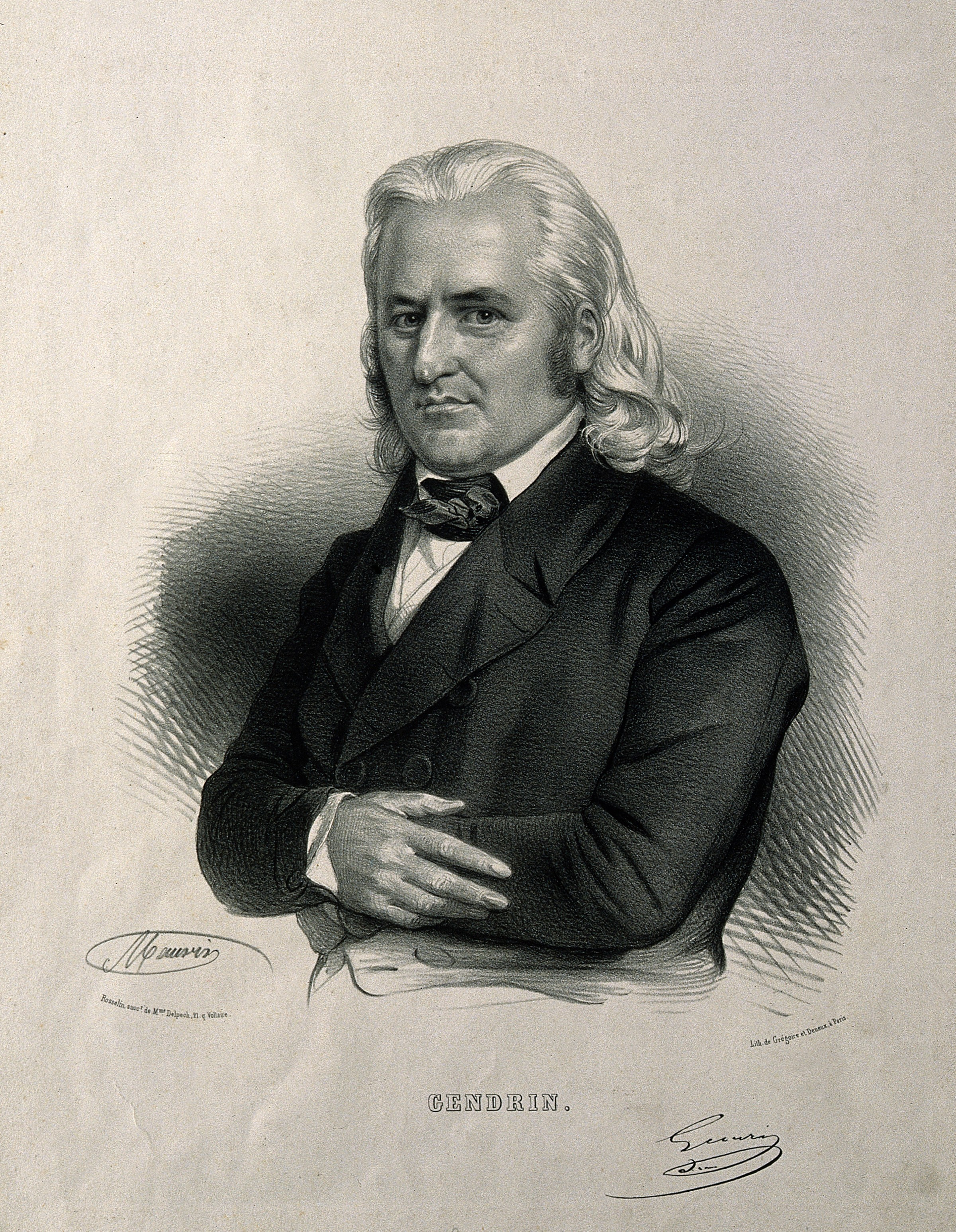 Genre/Technique: Portrait prints. Lithographs. Suject name: Gendrin, A. N. (Augustin Nicolas), 1796-1890.